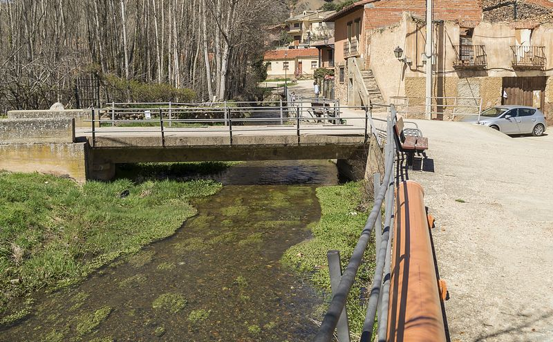 El río